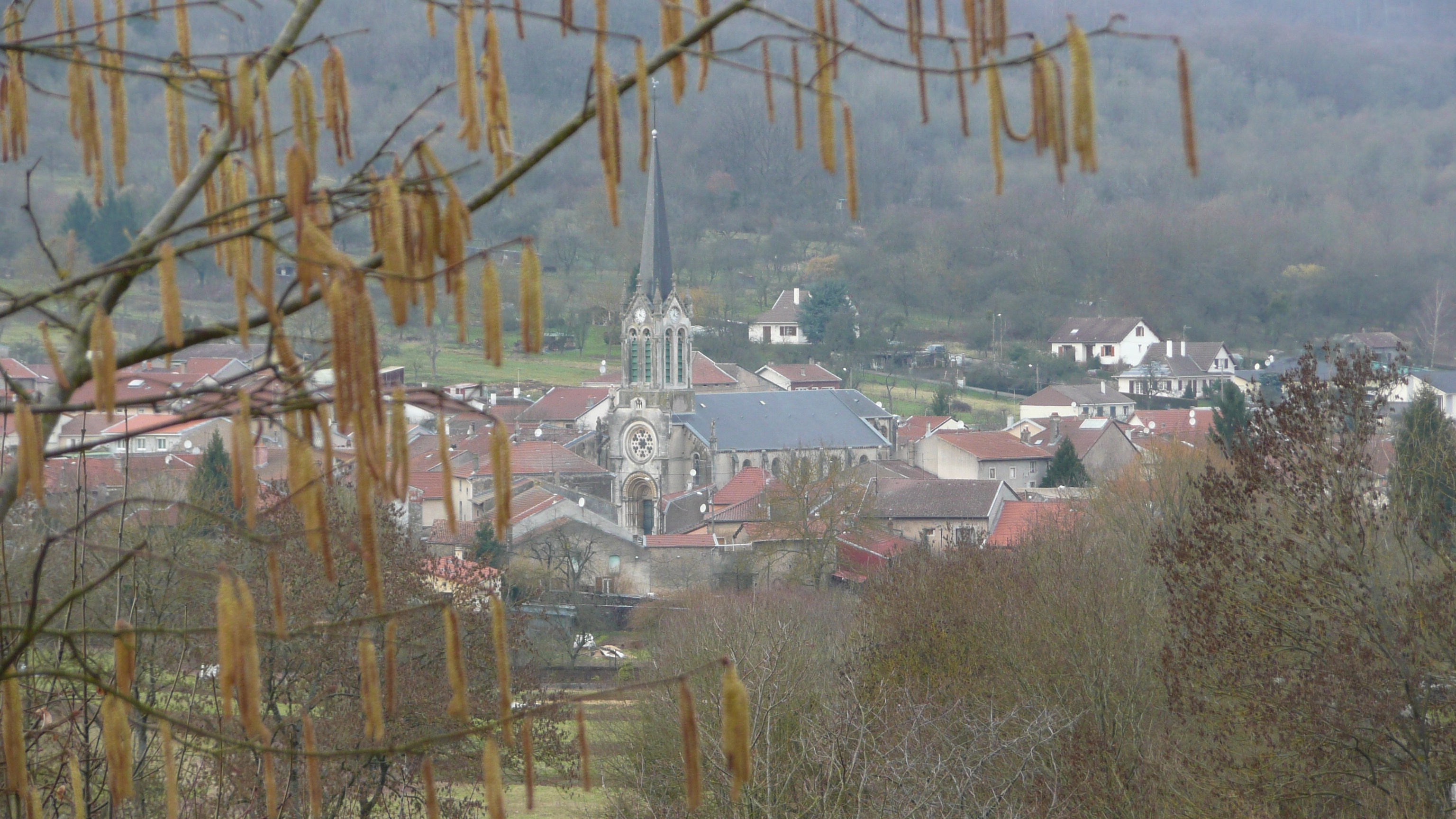 Overview of Jezainville. View realized from the pathway to Dieulouard, on the Cuite hill.